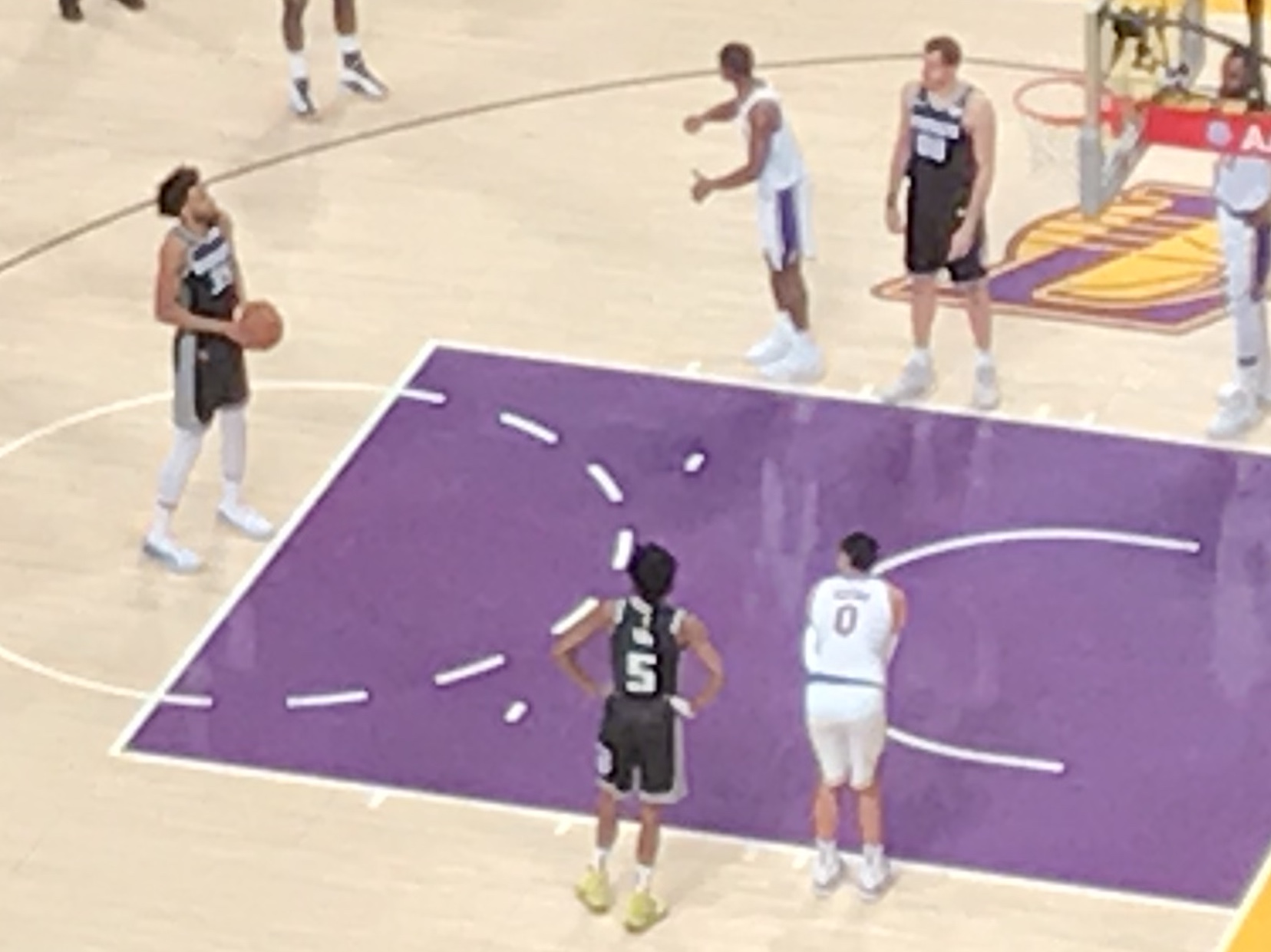 De’Aaron Fox watching Marvin Bagley take a free throw in March 2019